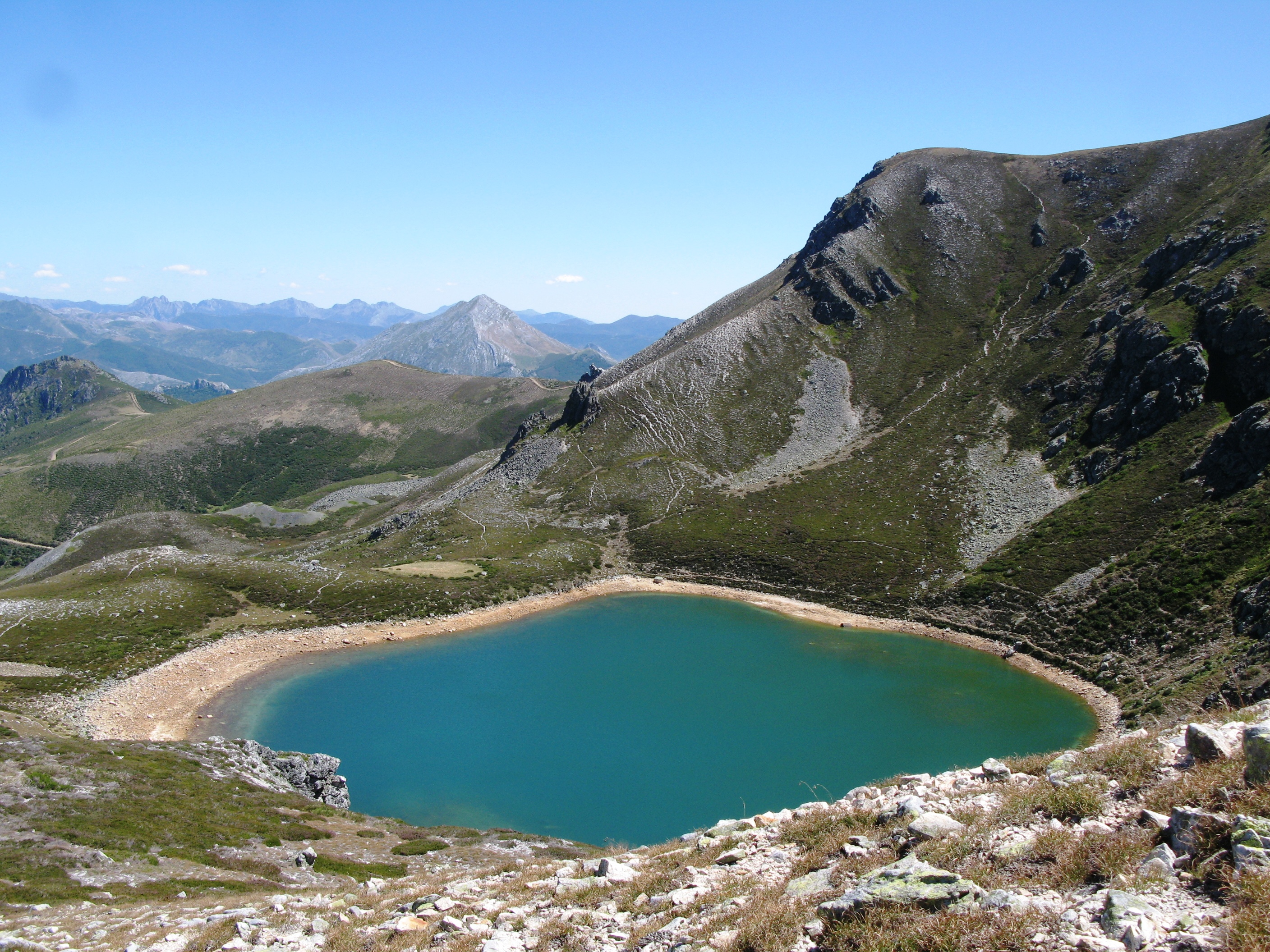 Lago Ausente This is a photography of a Site of Community Importance in Spain with the ID: ES4130003. Natura2000 entry, EEA entry